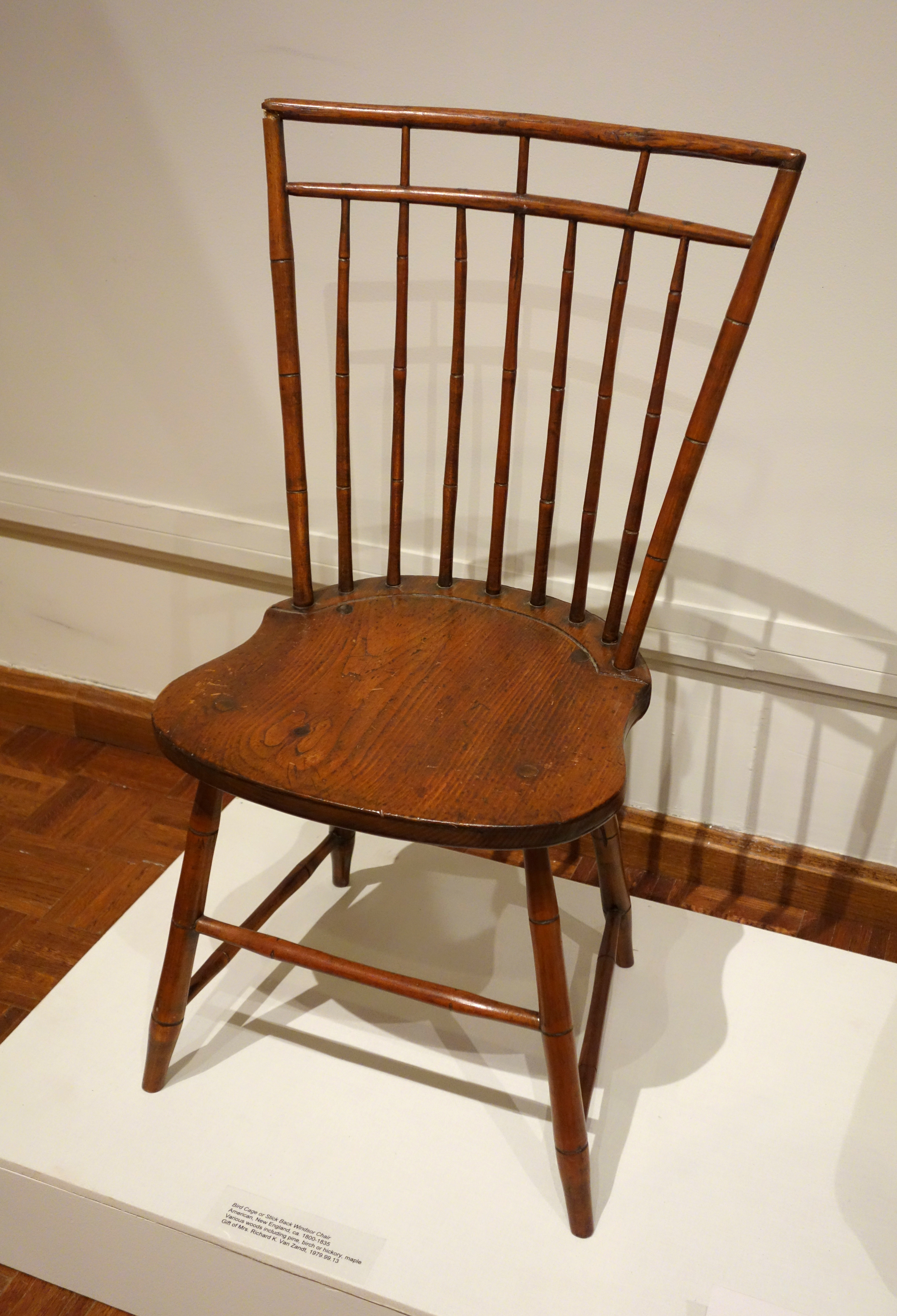 Exhibit in the Huntington Museum of Art, Huntington, West Virginia, USA. This artwork is in the public domain because the artist died more than 70 years ago.